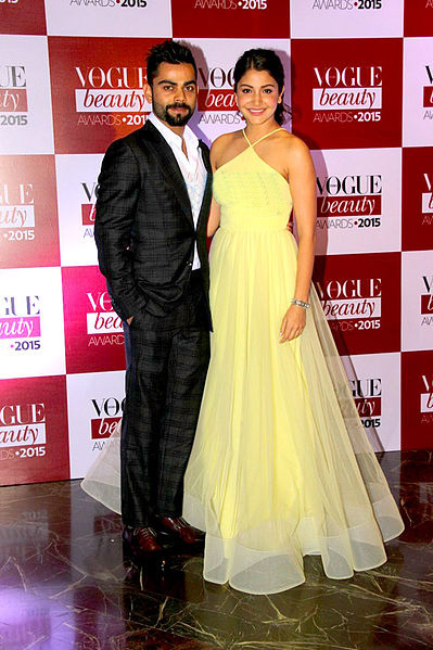 Anushka Sharma and Virat Kohli